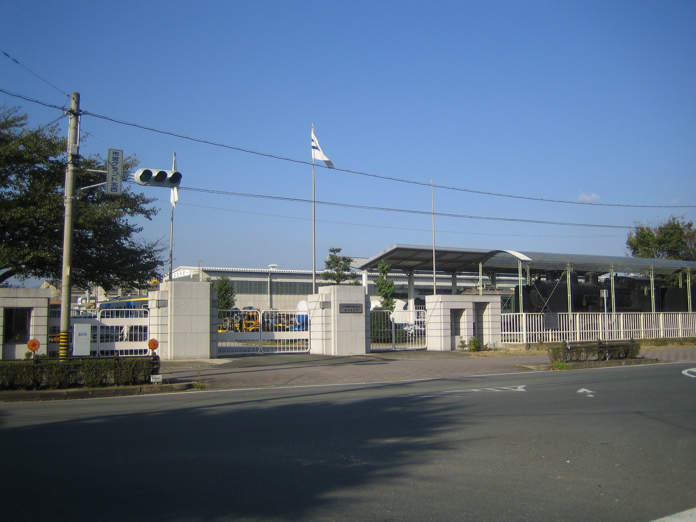 Nippon Sharyo (日本車輌製造) Toyokawa Factory, located at Honohara, Toyokawa, Aichi, Japan